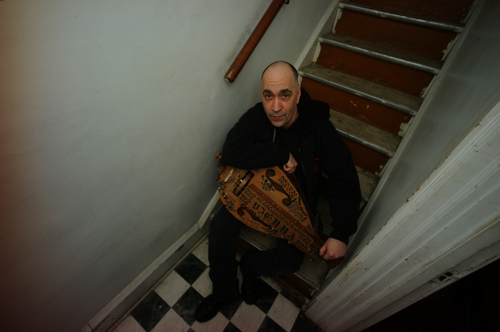 Rodney Linderman, musician, journalist and humorist known for his work with The Dead Milkmen